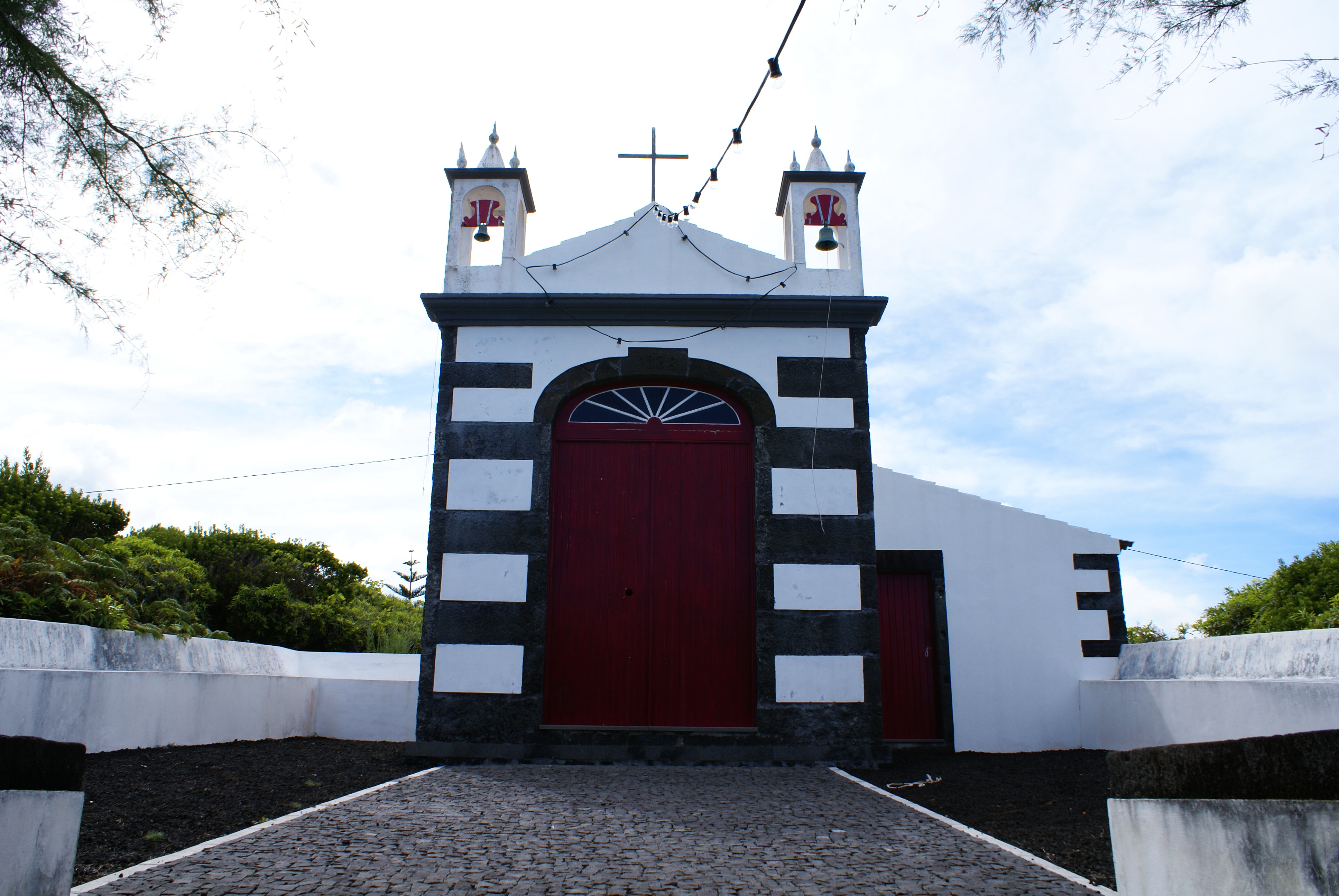 Ermida de Nossa Senhora do Desterro, Cais do Mourato, Bandeiras, Madalena, Ilha do Pico, Açores